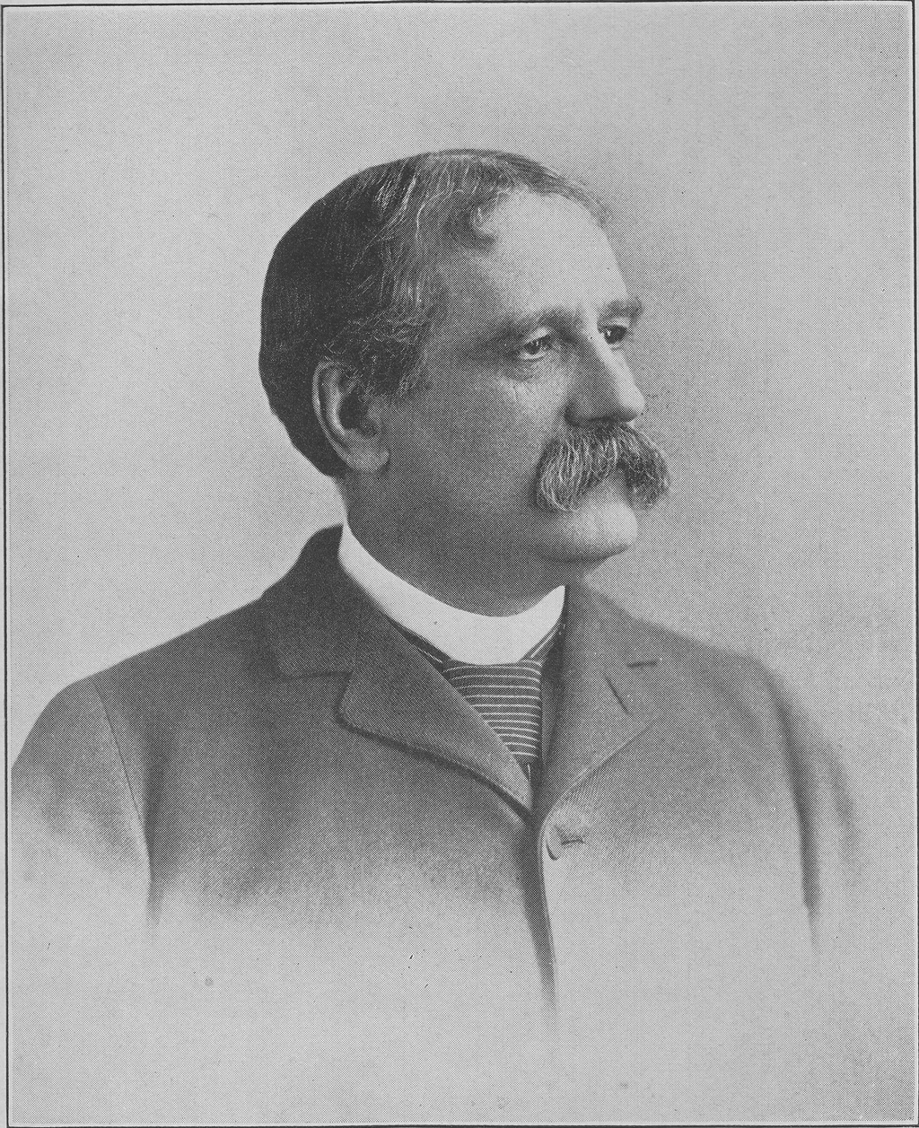 Francis Amasa Walker